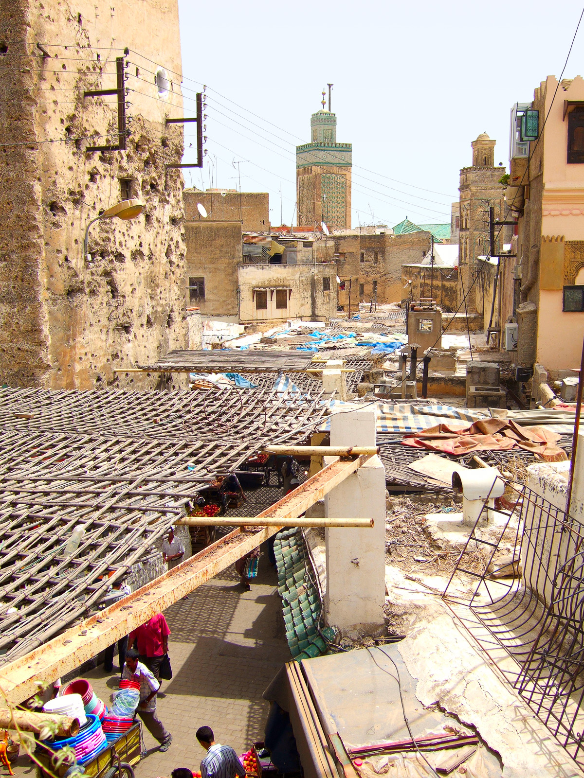 Photo from a restaurant near Bab Boujloud in Fes, Morocco. Fuji F11 Camera at ISO 80.